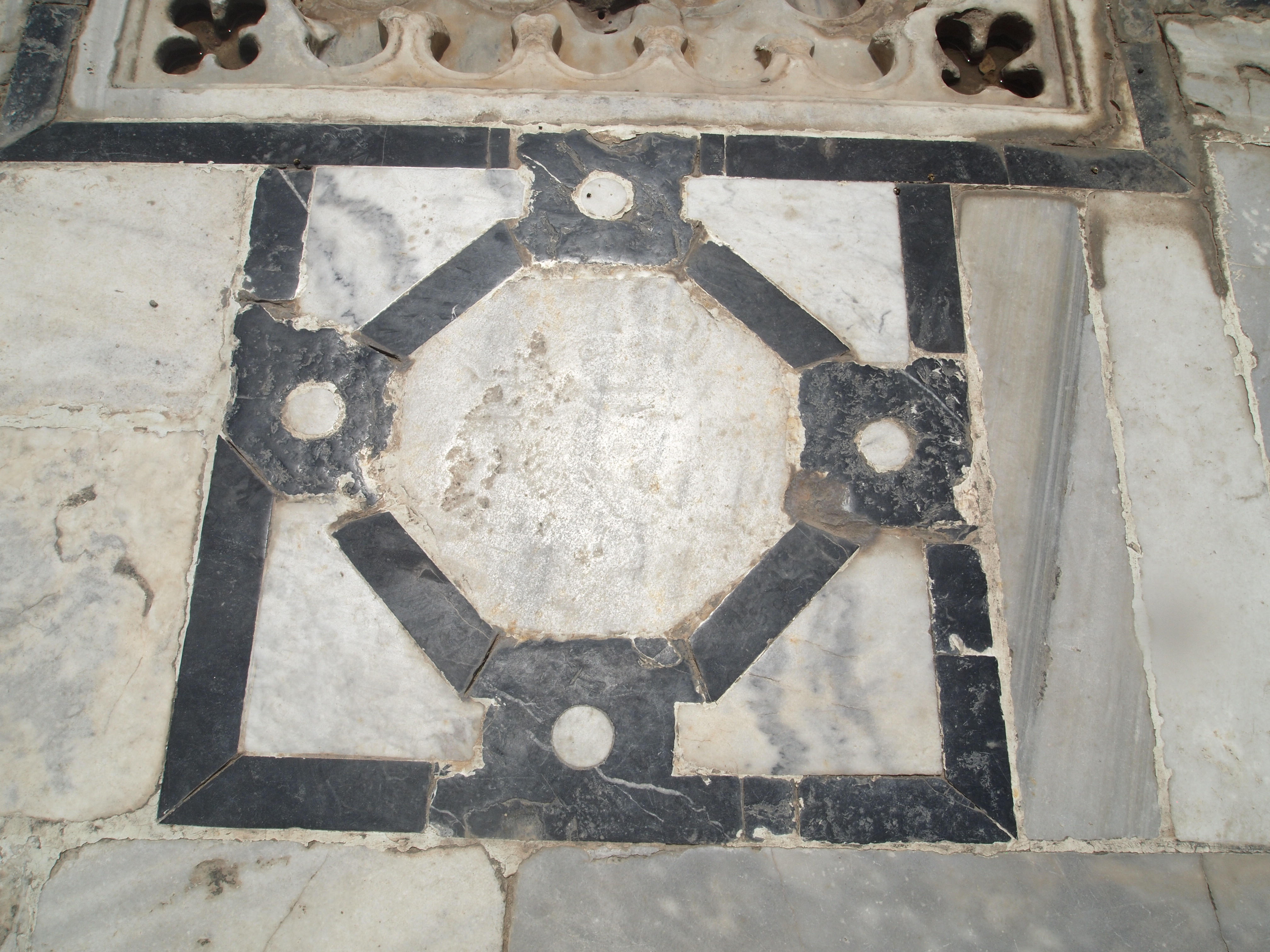 Kairouan - the Great Mosque of Sidi-Uqba (Tunisia) : detail of the courtyard.